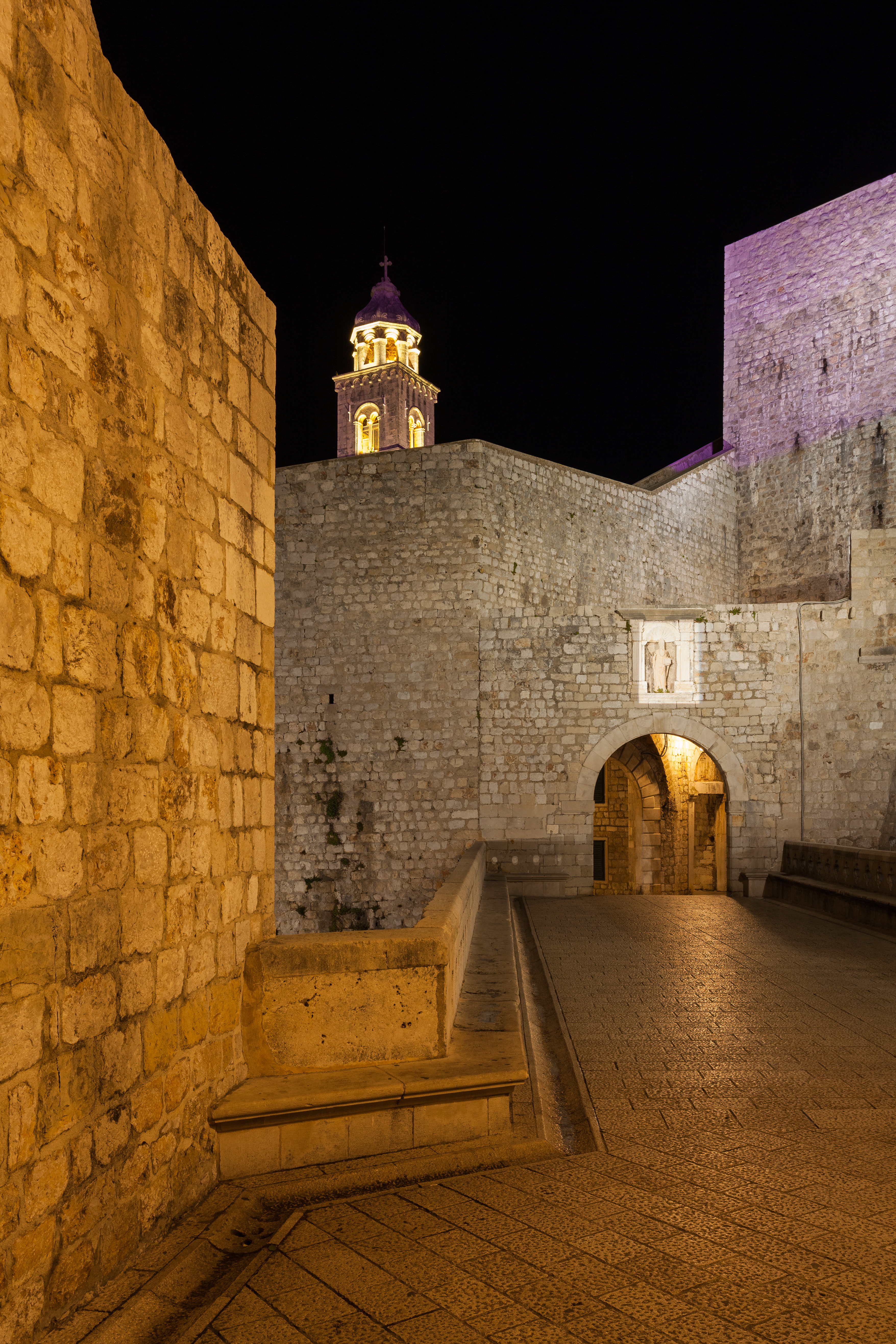 Old city of Dubrovnik, Croatia